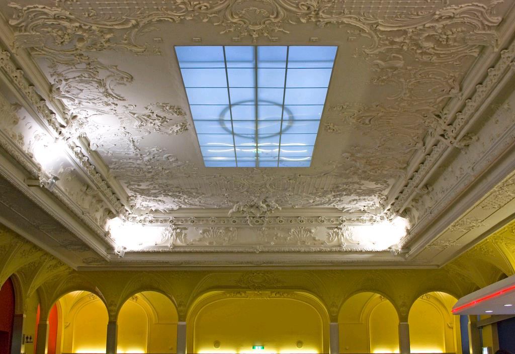 stuccoed ceiling Annagasse 3